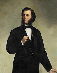 Official portrait of Providence Mayor Thomas A. Doyle hangs in the Providence City Hall.